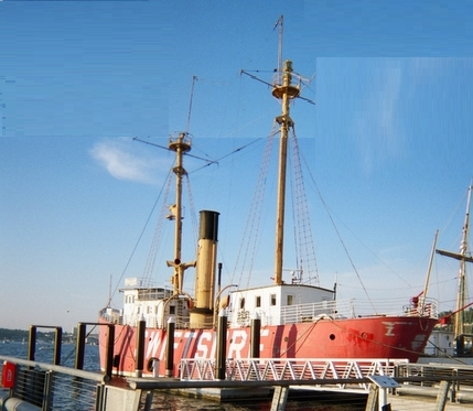 Lightship No 83, currently (since 1995) named Swiftsure, one of the historic fleet of Northwest Seaport, Seattle. A city landmark and a National Historic Landmark.